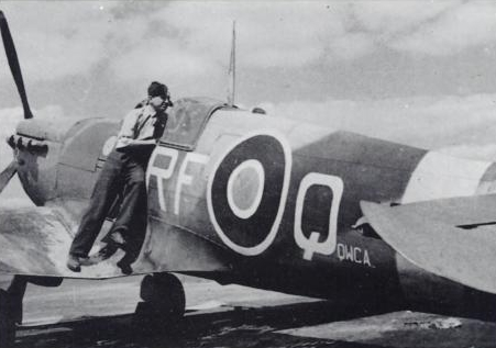 303 Squadron RF-Q (S/L Antoni Glowacki)